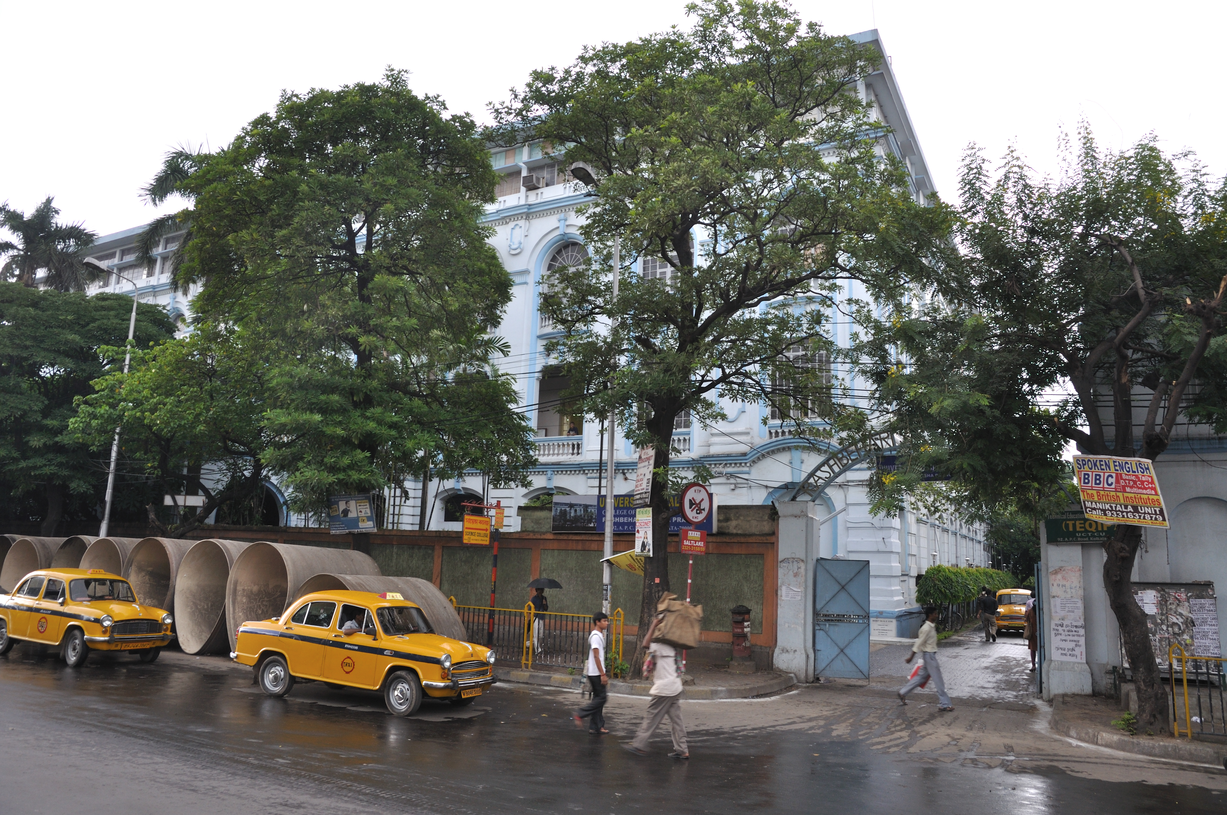 The Rashbehari Siksha Prangan, popularly known as Rajabazar Science College campus of the University of Calcutta (also known as Calcutta University) at A P C Roy road in Kolkata.